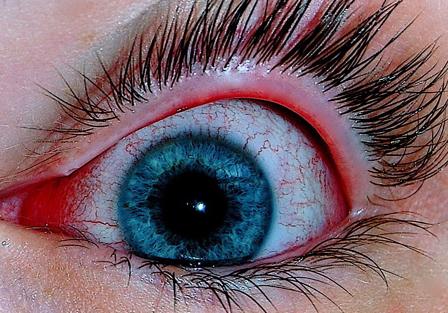 An eye infected with viral conjunctivitis